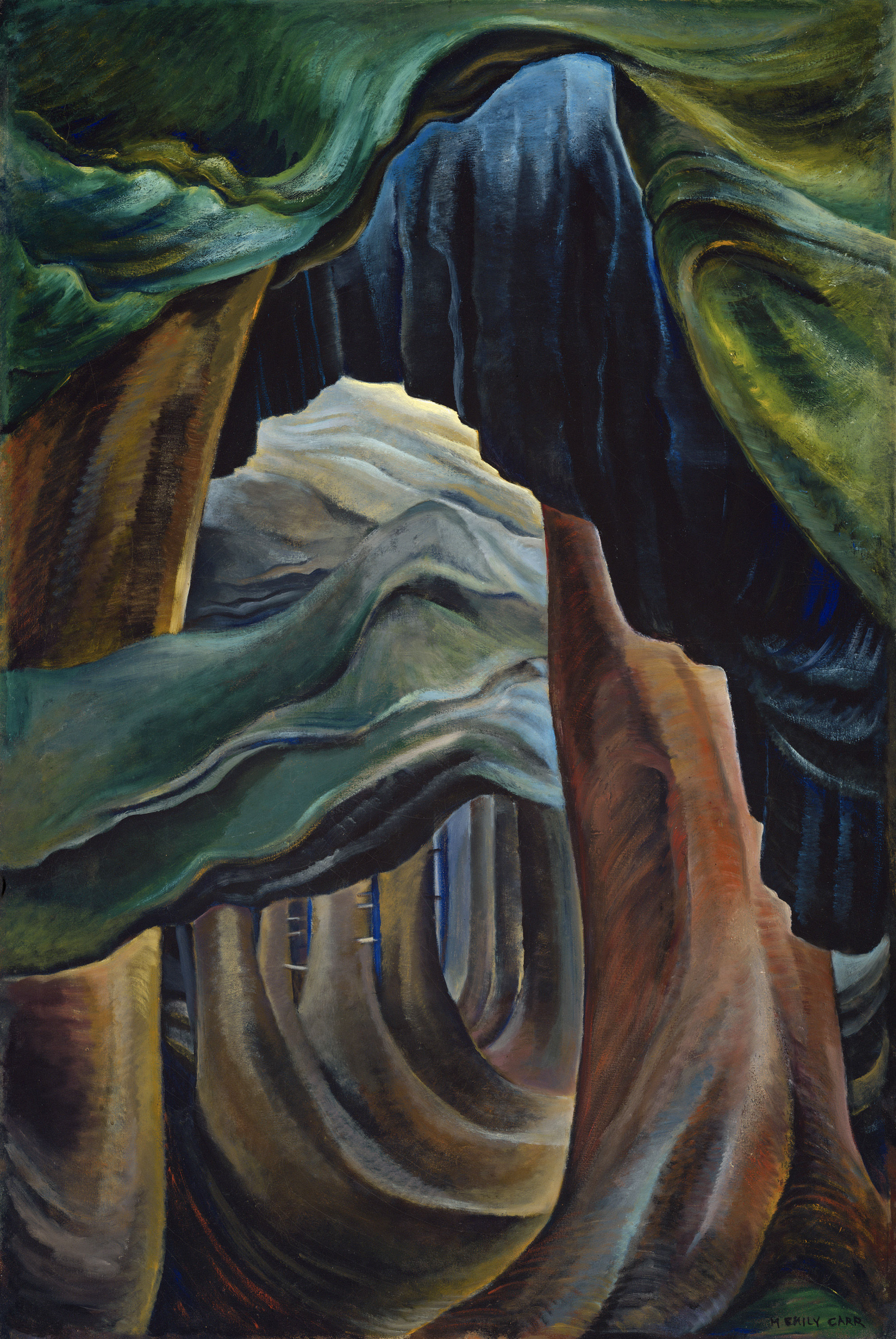 On June 17, 2012, seven Emily Carr paintings were displayed at the dOCUMENTA (13) Art Exhibition